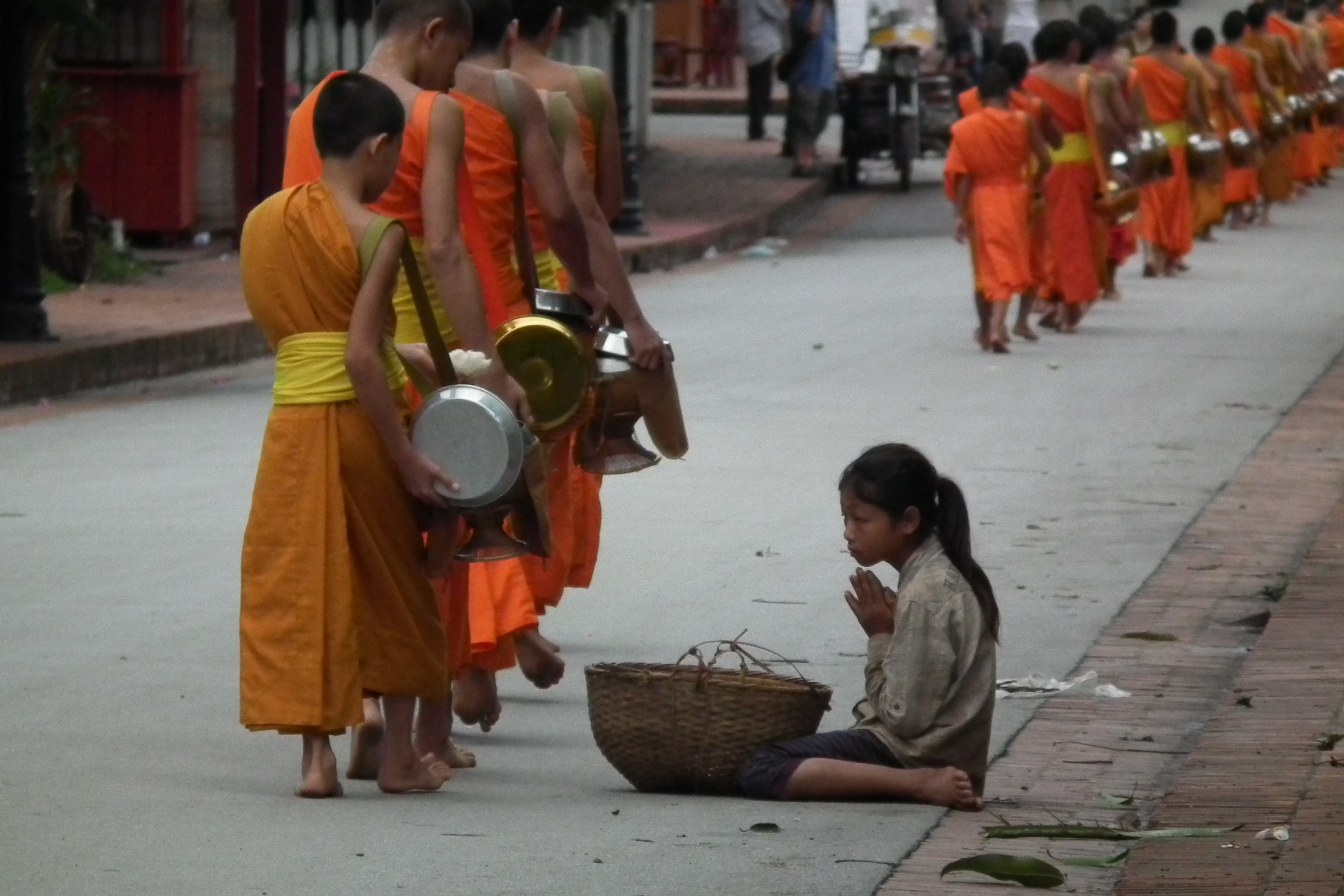 Luang Prabang Takuhatsu